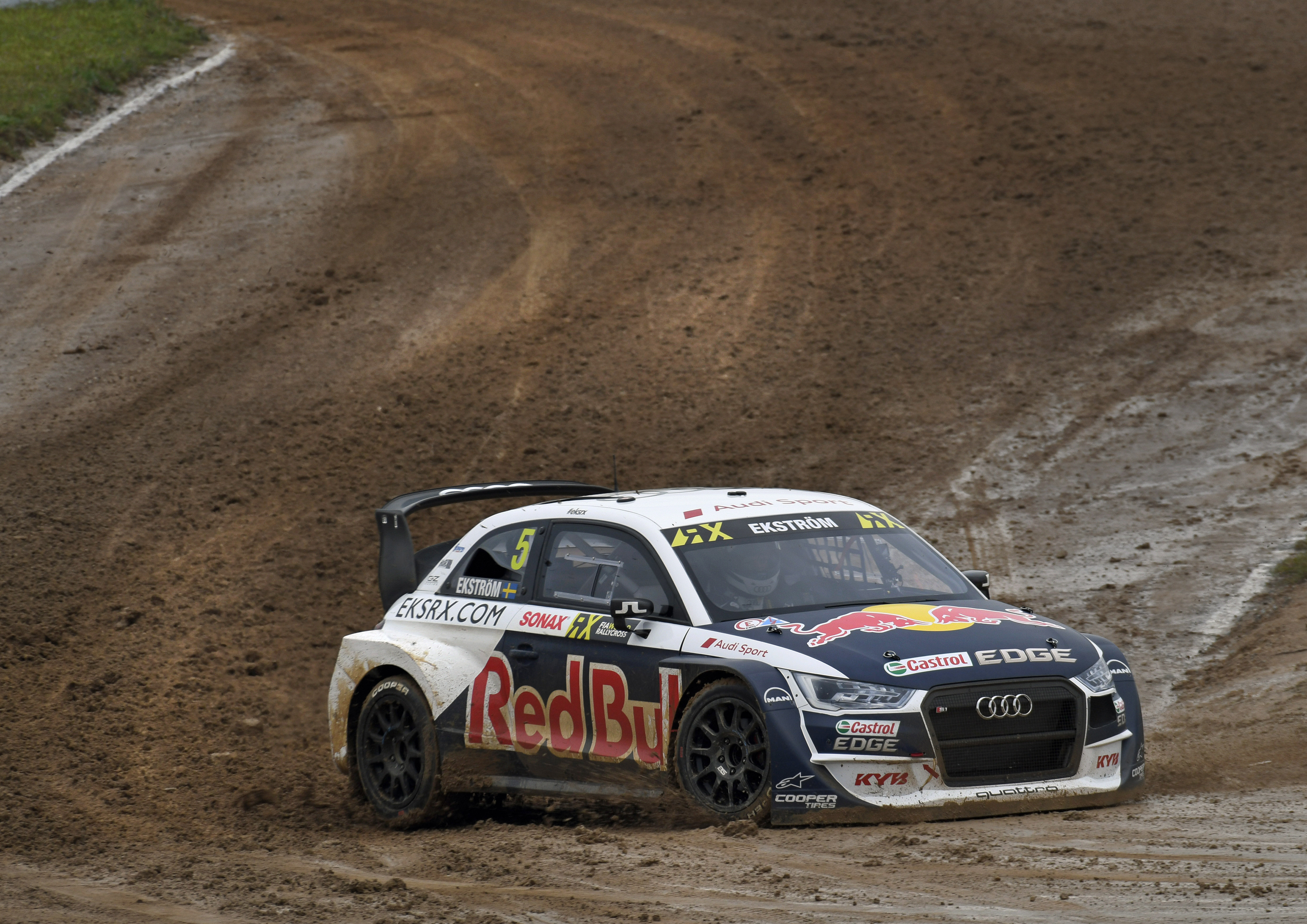 2018 FIA World Rallycross Championship // Round 1, Barcelona // Credit: EKS Audi Sport